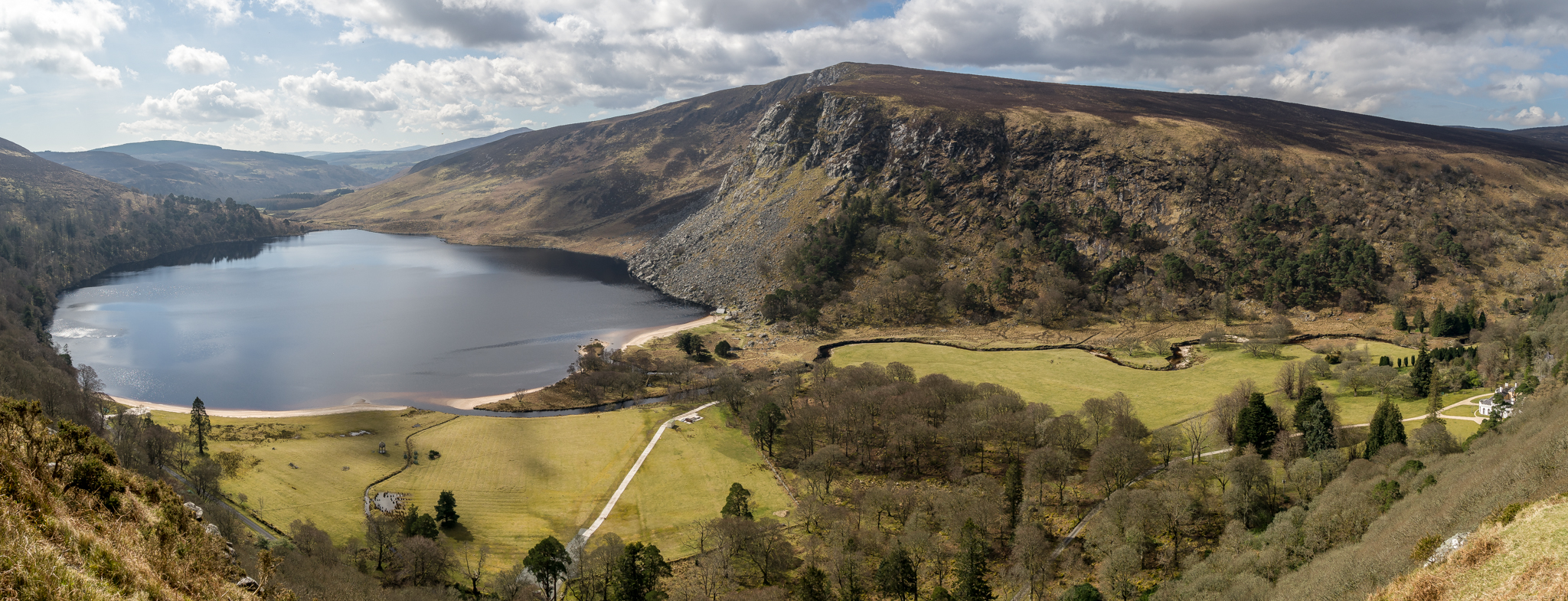 Guinness Estate Luggala Ireland showing Lough Tay and Luggala mountain. The white estate lodge is visible on the extreme right